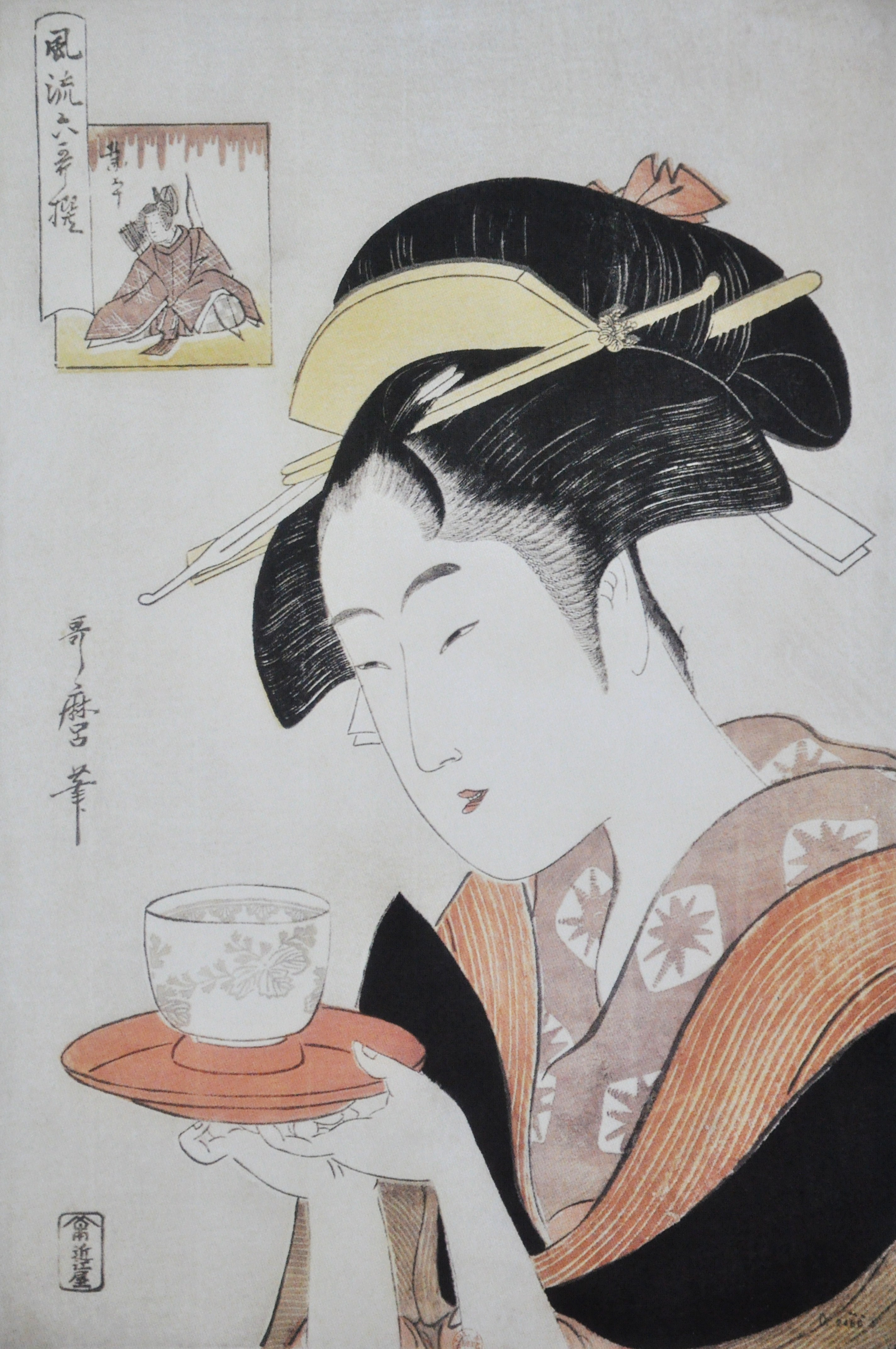 Portrait of Naniwaya Okita, by Utamaro (ca. 1796). This copy of the woodcut print could not show her name (because of censorship), neither could it show it as a rebus (as a way to go around censorship constraints). So, instead of a name, she is identified through her association with a famous poet.